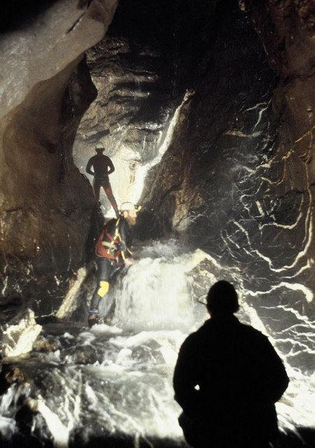 Main stream way with rock striping.